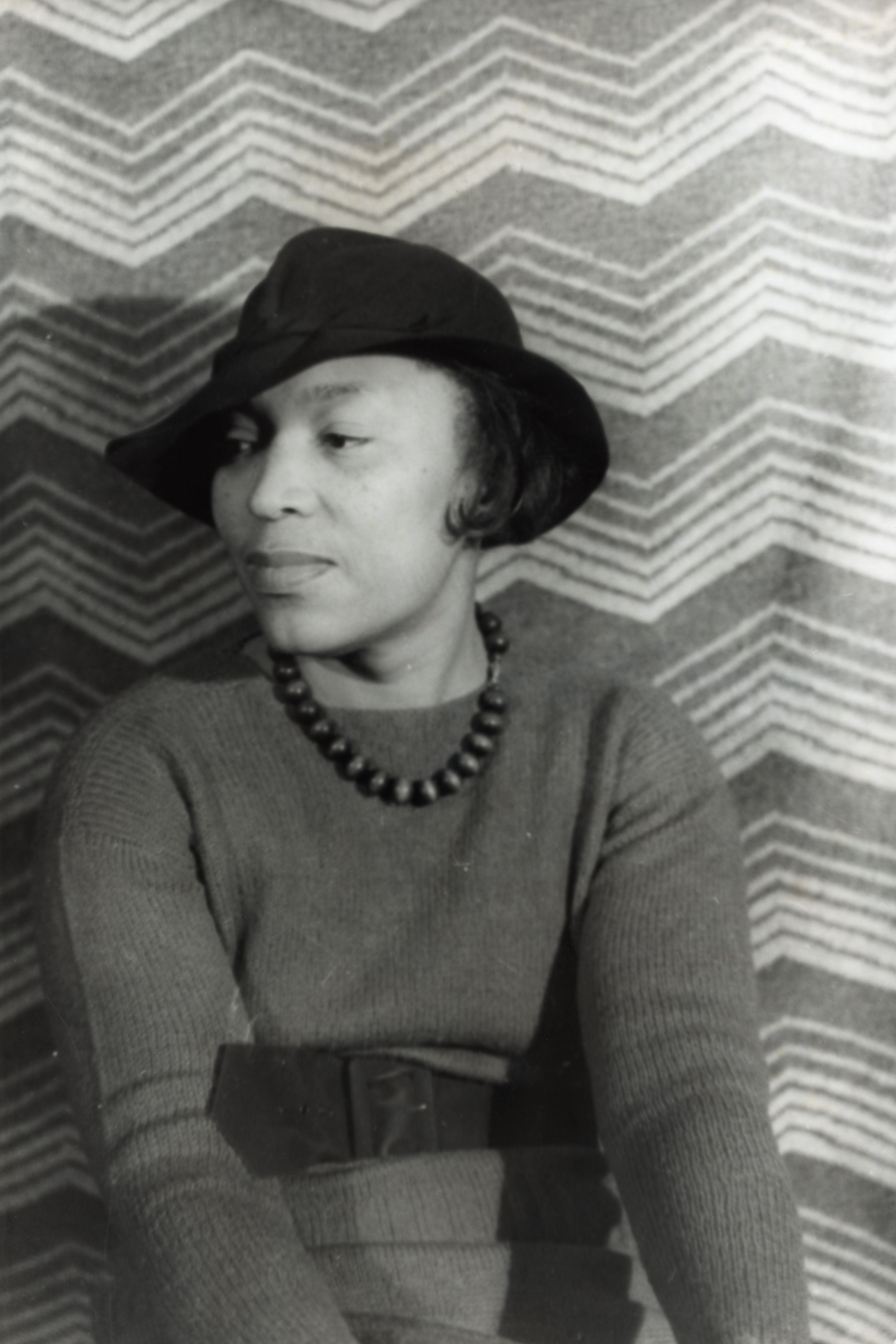 Zora Neale Hurston Photographer: Carl Van Vechten. Silver geletin print, 1938 Portrait of Zora Neale Hurston